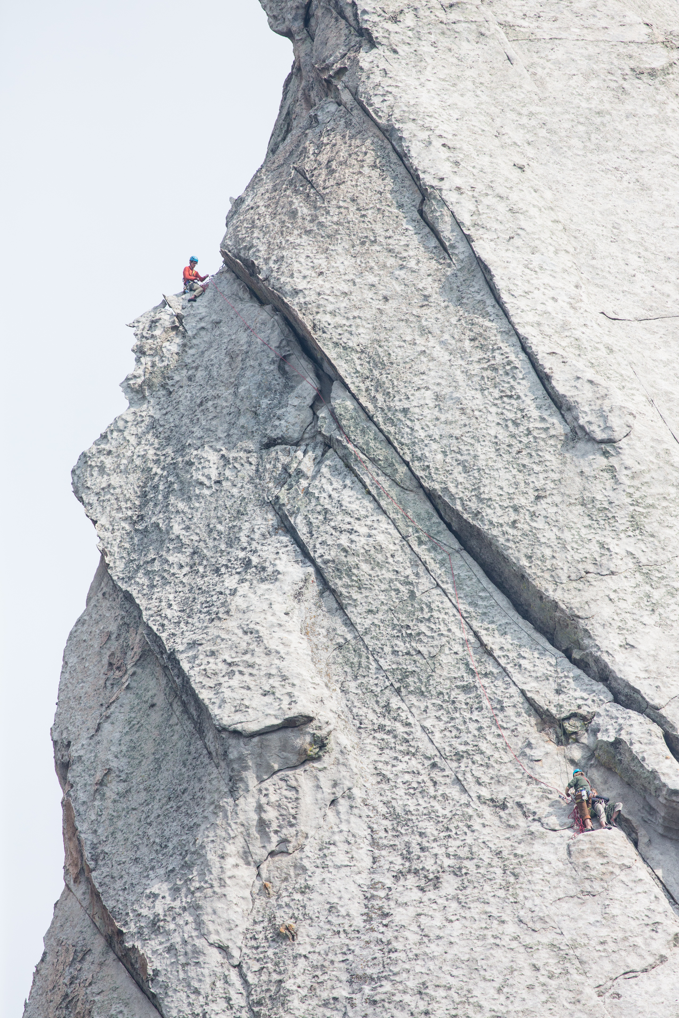 The Humbug Spires Wilderness Study Area is a 11,175-acre (4,522 ha) roadless area, located 26 miles (42 km) south of Butte, Montana. Impressive granite outcroppings, part of the Boulder Batholith, rise 300–600 feet (90–180 m) and provide outstanding rock climbing opportunities, most of which range from 5.5 to 5.7 in difficulty, although routes to challenge all levels of ability are present. A three-mile (one way) trail starts at the parking area and winds along the creek through an old-growth forest, and then climbs a ridge and eventually reaches the “Wedge," one of the more prominent spires. Recreation activities include hiking, rockclimbing, sightseeing, photography, horseback riding, wildlife viewing, primitive camping, and small stream fishing. Offsite developed camping is available five miles away at the Divide Bridge Campground. Plan your trip: Photo: Bob Wick, BLM California